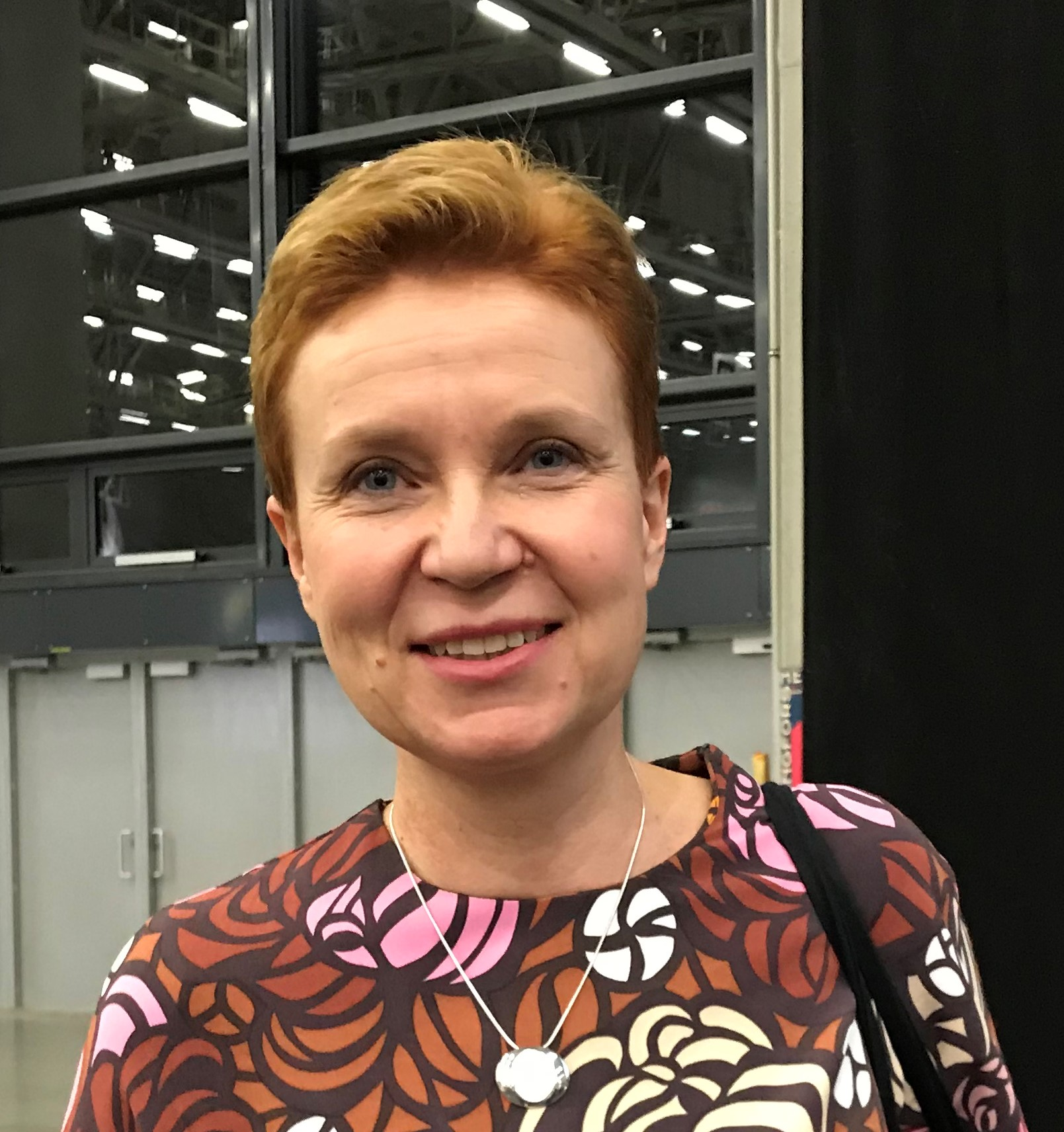 Finnish writer Sirpa Kähkönen at Helsinki Book Fair 2018